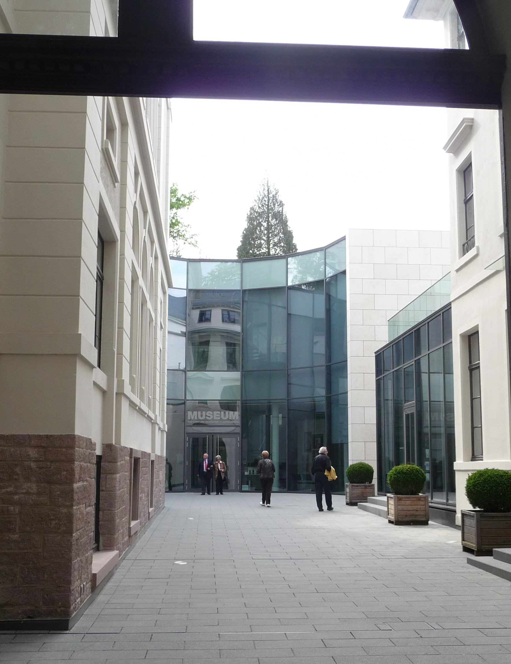 Museum für Kunst und Technik des 19. Jahrhunderts